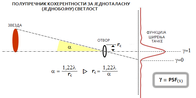 ПОЛУПРЕЧНИК КОХЕРЕНТНОСТИ ЗА ЈЕДНОТАЛАСНУ (ЈЕДНОБОЈНУ) СВЕТЛОСТ